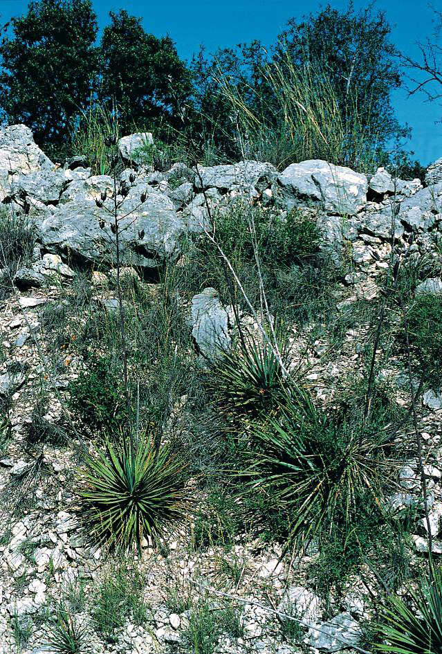 Yucca reverchonii